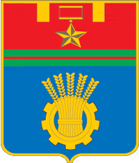 Volgograd, coat of arms